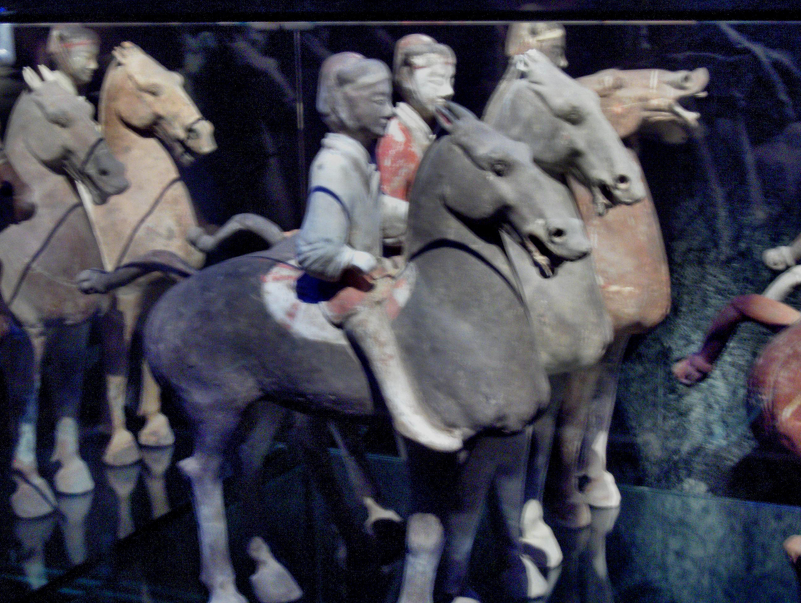 Cavalrymen and horses; Yangjiawan, Western Han Dynasty